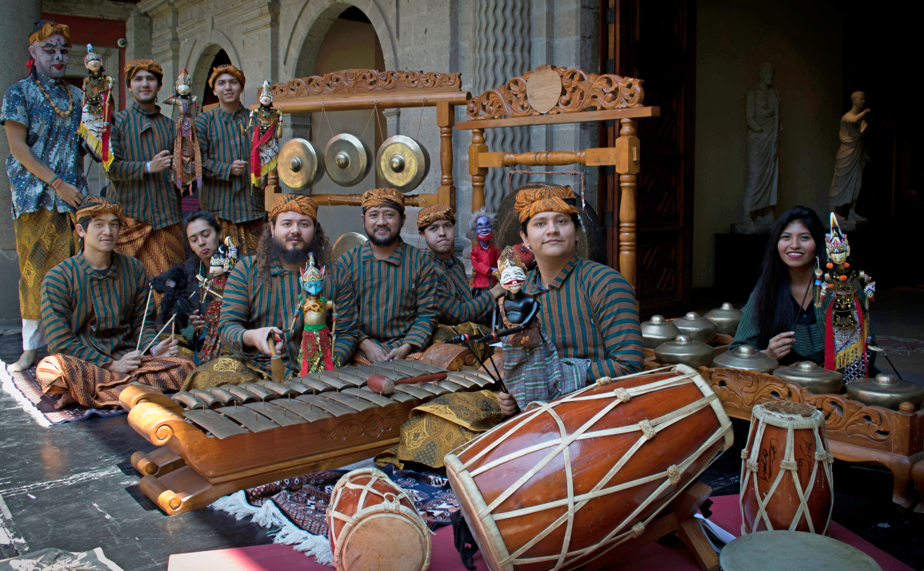 grupo Indra Swara conjunto gamelan barudak Mexico